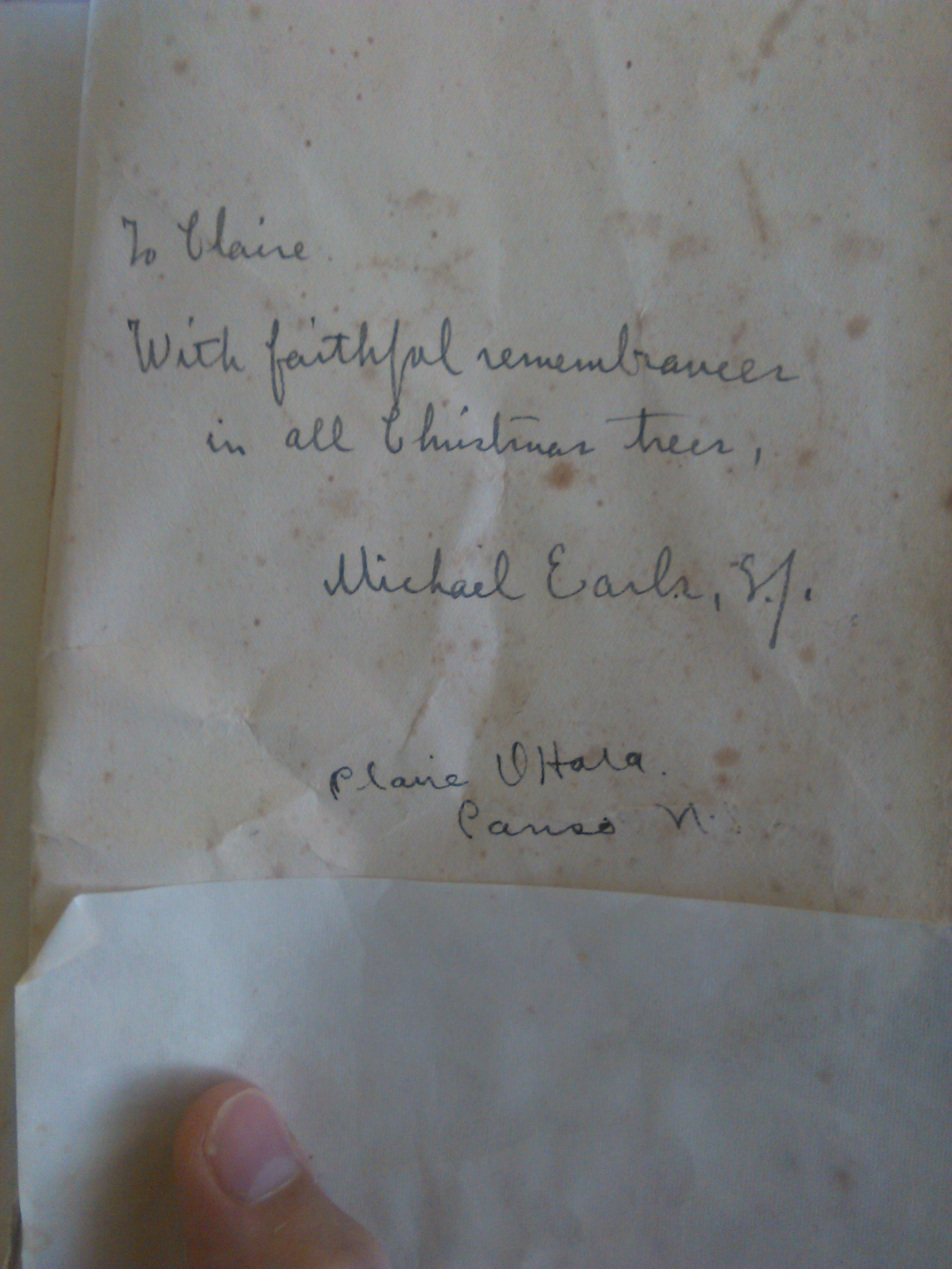 Original Michael Earls signed copy of Bersabee to Dan. Adressed to Claire (O'Hara) Hagar of Canso, Nova Scotia; the inspiration for "Claire of Canso".